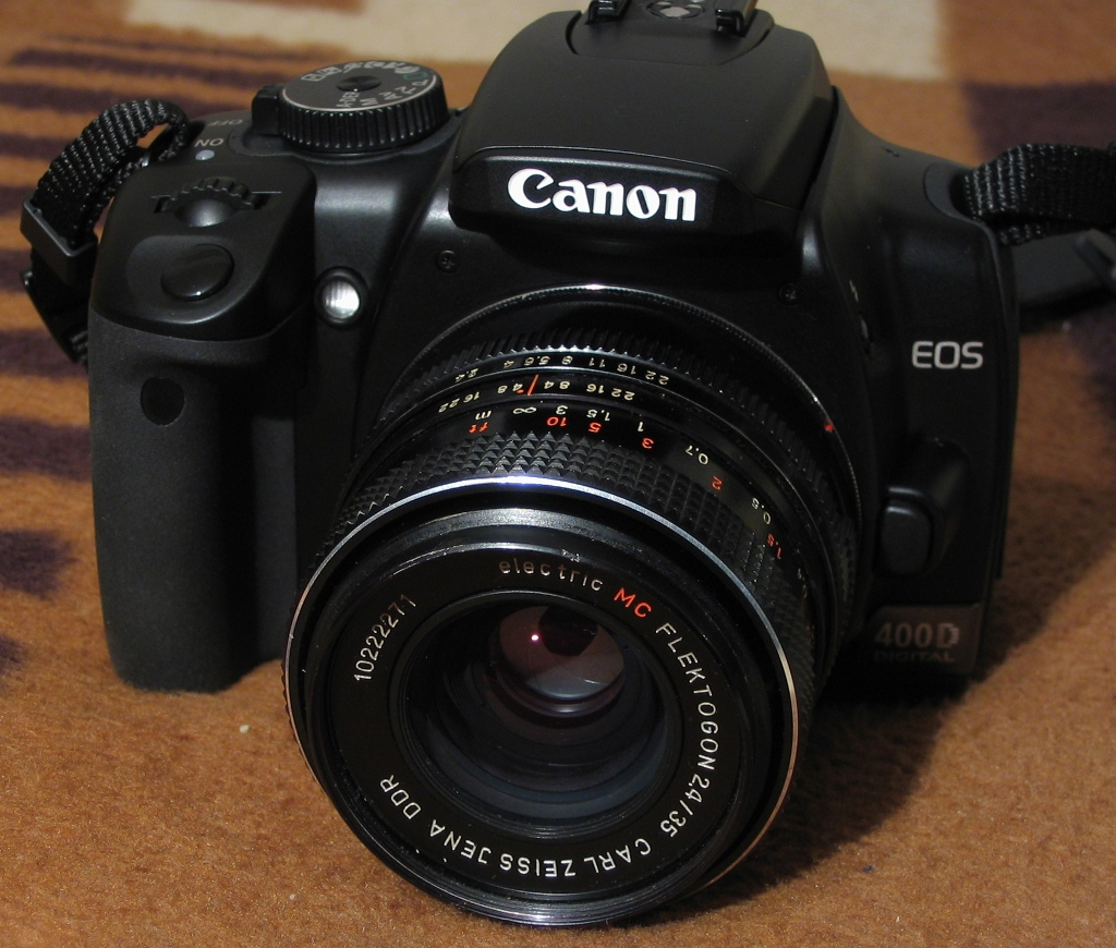 Carl Zeiss Jena MC Flektogon 2.4/35